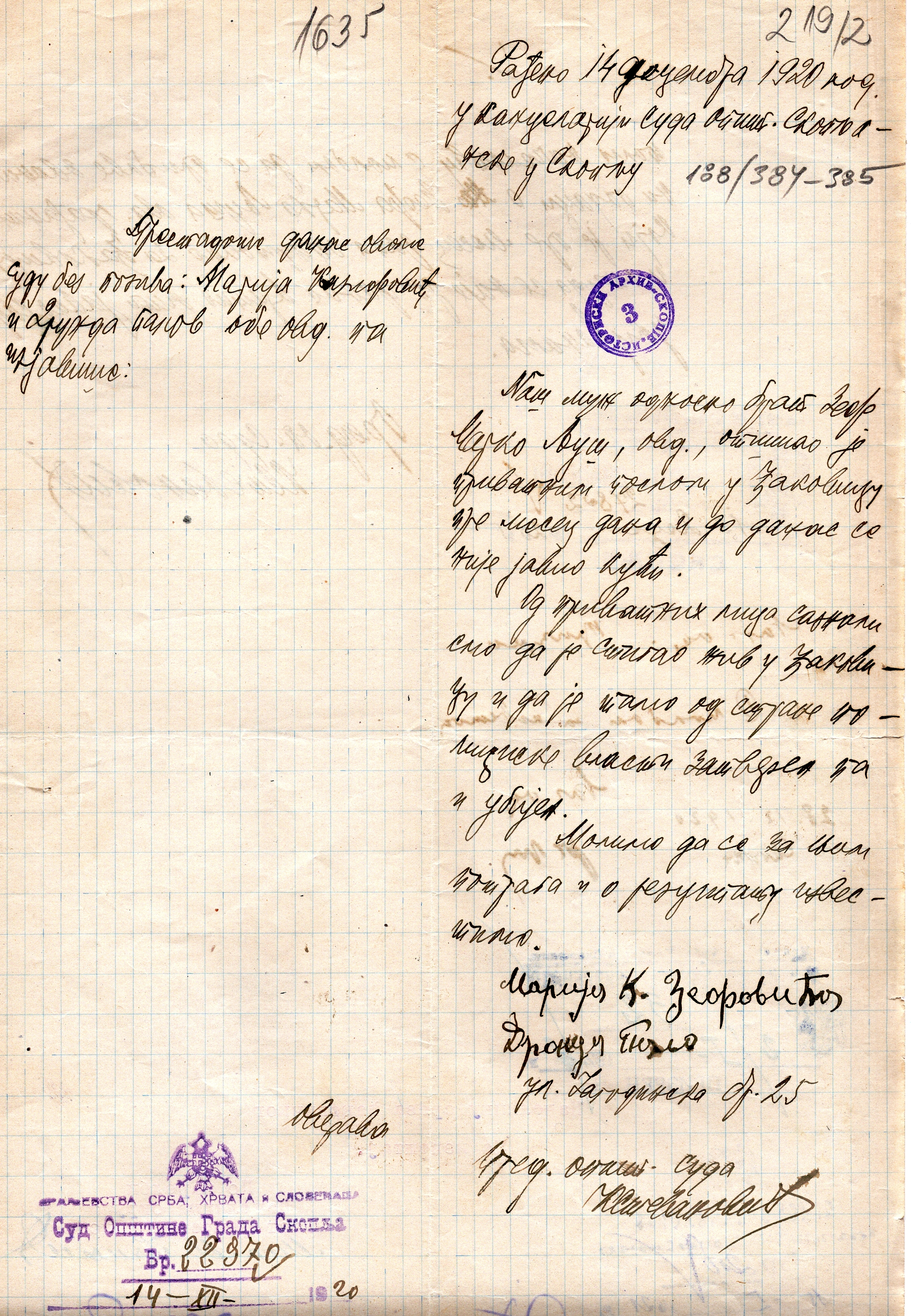 A notification that in Gjakovica is found the dead body of Zef Ljush Marku (activist), citizen of Skopje, 14 December 1920. This media file is produced by Wikipedian in Residence in Category:Wikipedian in Residence at DARM in 2017.